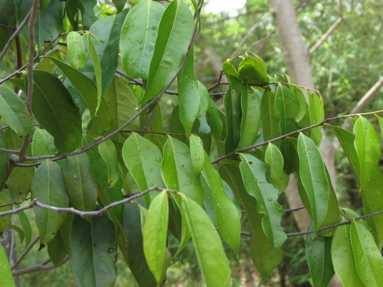 Diospyros bourdilloni seen in Nilgiri biosphere nature park, anakatty, coimbatore on 4th may 2014